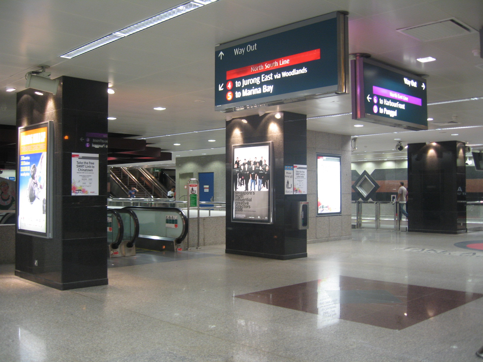 Dhoby Ghaut MRT Station.